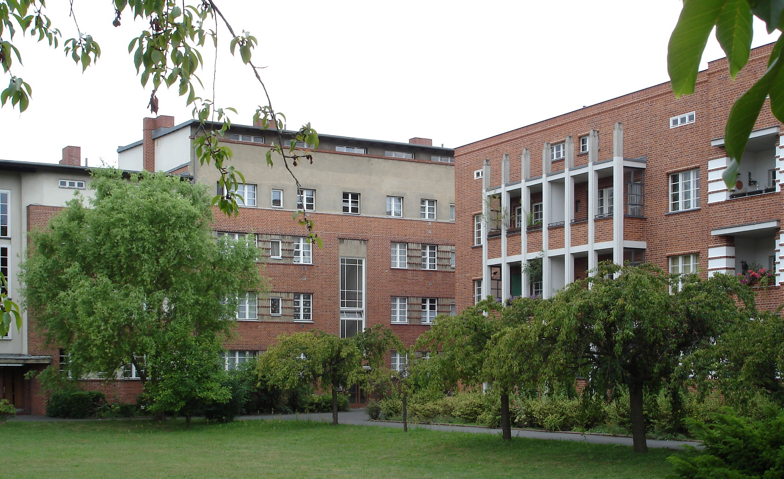 Schillerpark Housing Estate in Berlin-Wedding; back view of the buildings Bristolstraße 3 and 1, and Dubliner Straße 62 and 64 from the yard